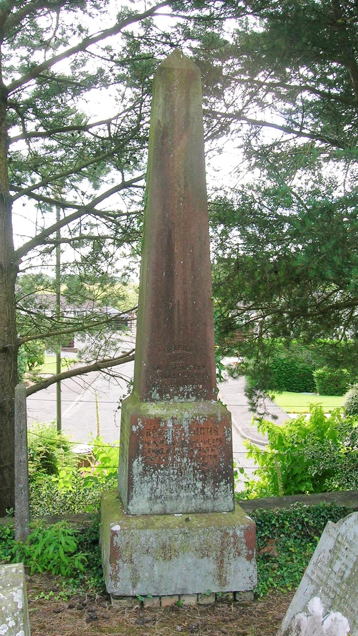 Robert & John Burnes Memorial obelisk, Laigh Kirk, Stewarton, East Ayrshire, Scotland.